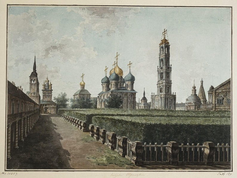 en: Fedor Alekseev Title